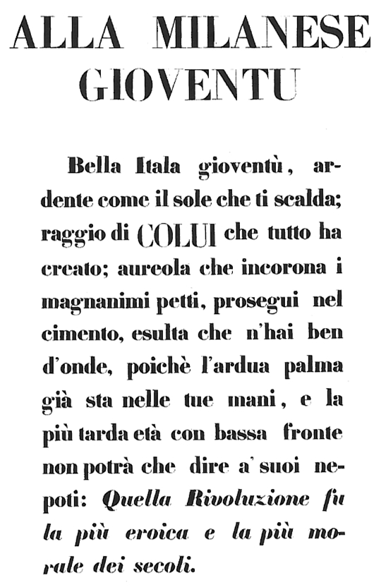 Manifest to Milan youth during the "Cinque giornate"